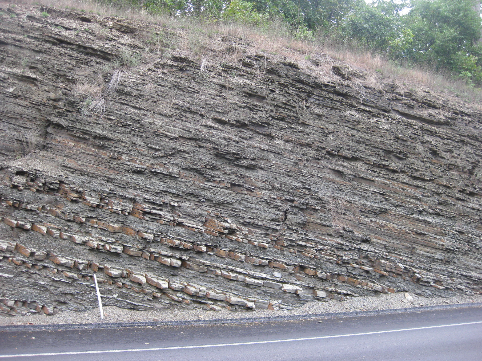 Outcrop of Devonian Brallier Formation on north side of Pennsylvania Turnpike, central Bedford County, near Mile Marker 138. Sandstone beds near bottom of photo are possible turbidites. Taken Aug. 2011. Summary Outcrop of Devonian Brallier Formation on north side of Pennsylvania Turnpike, central Bedford County, near Mile Marker 138. Sandstone beds near bottom of photo are possible turbidites. Taken Aug. 2011.